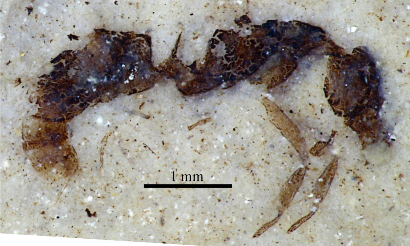 Austroponera schneideri holotype worker in profile. Early Miocene, Aquitanian; Foulden Hills maar, Foulden Hills diatomite, Waipiata Volcanic Field, Otago, New Zealand. Department of Geology of the University of Otago, Dunedin, New Zealand. Specimen OU44901